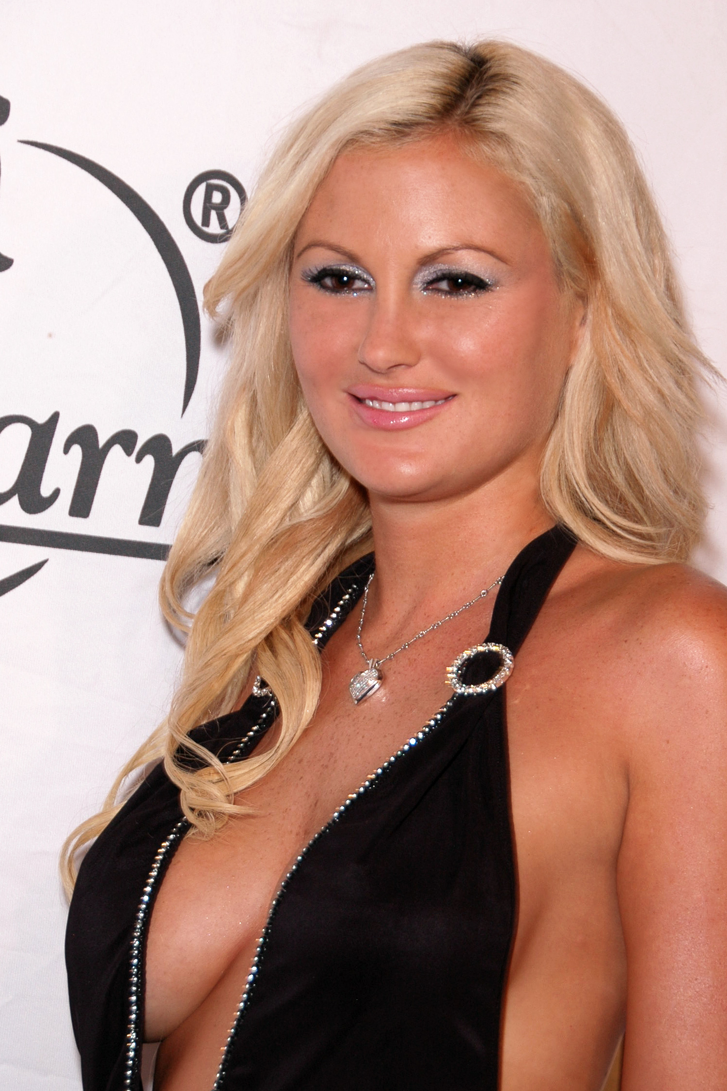 Megan Hauserman attending a Benchwarmer Party at Area, West Hollywood, CA on August 28, 2007 - Photo by Glenn Francis of